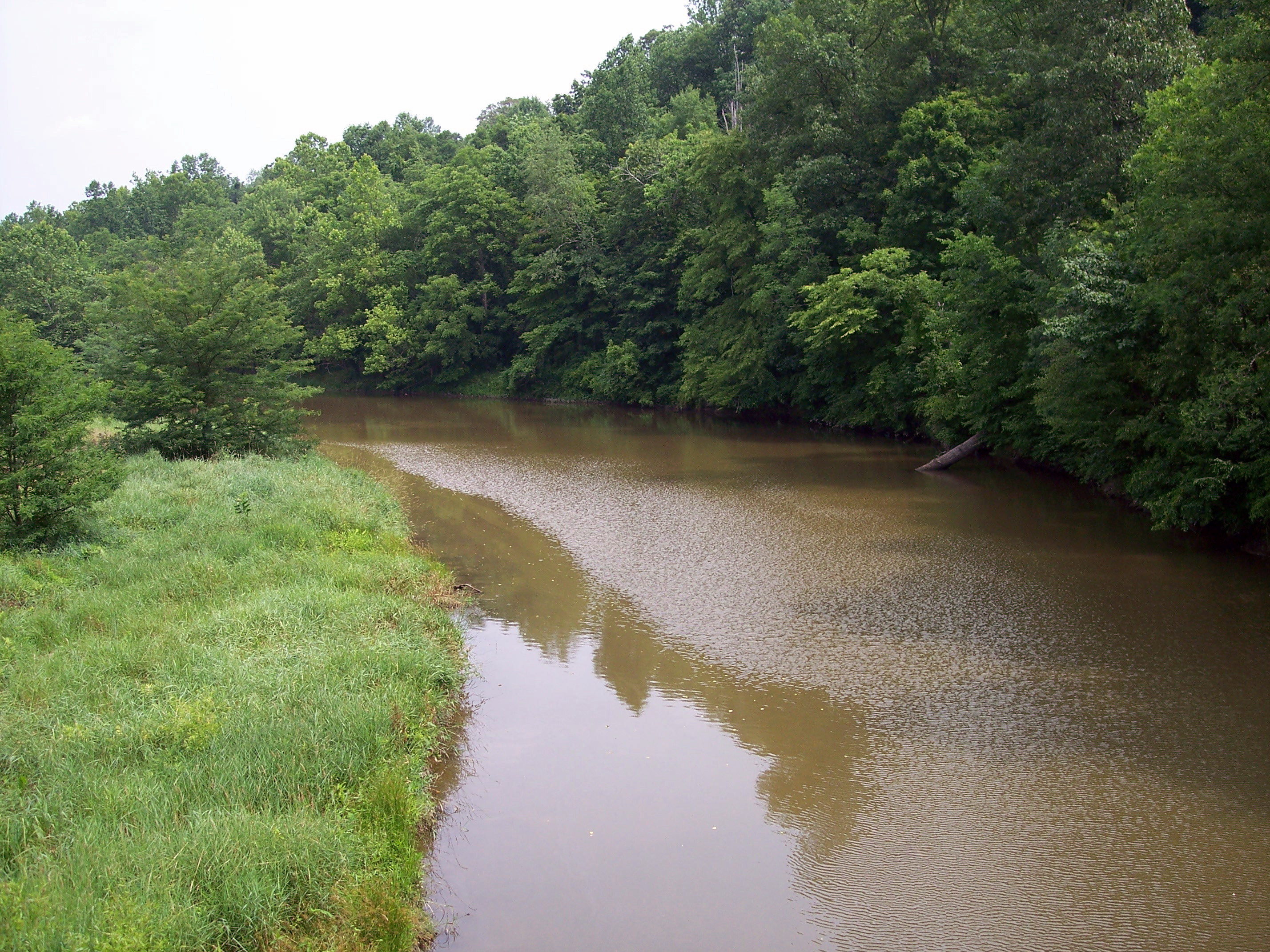 The West Branch of the Little Hocking River near its mouth, as viewed upstream from Township Road 246, west of Ohio Route 555 in western Belpre Township, Washington County, Ohio.